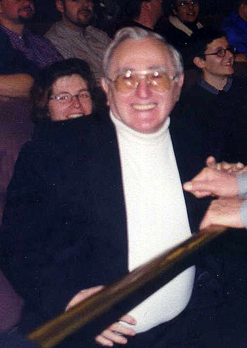 Gad Beck at the Zoo Palast Cinema, Berlin, for the German premiere of Paragraph 175 on 22 February 2000